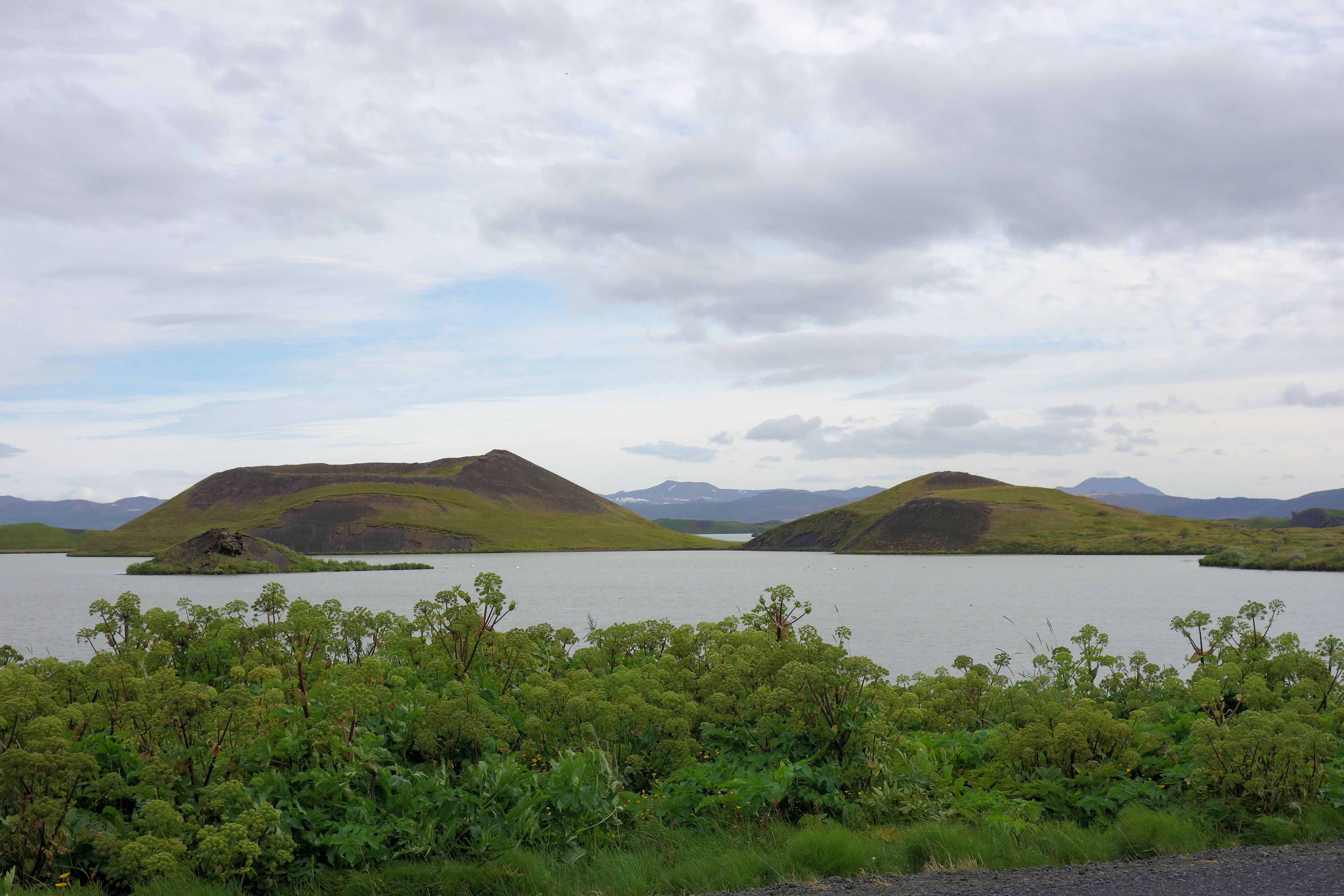 Angelica at the roadside on Iceland